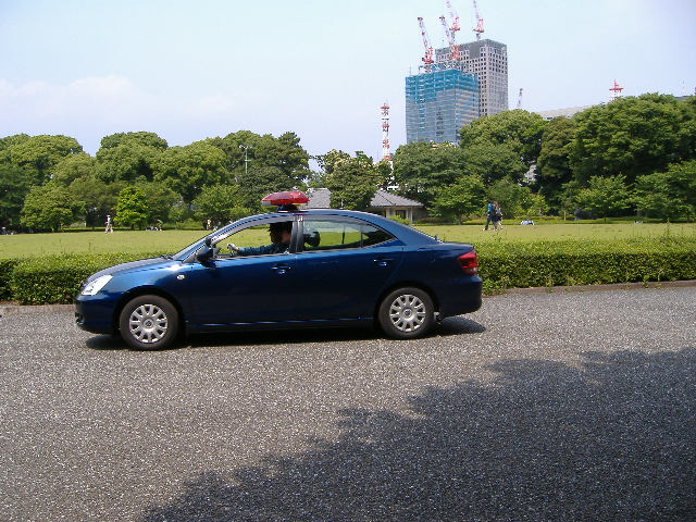 Japanese Imperial Guard car